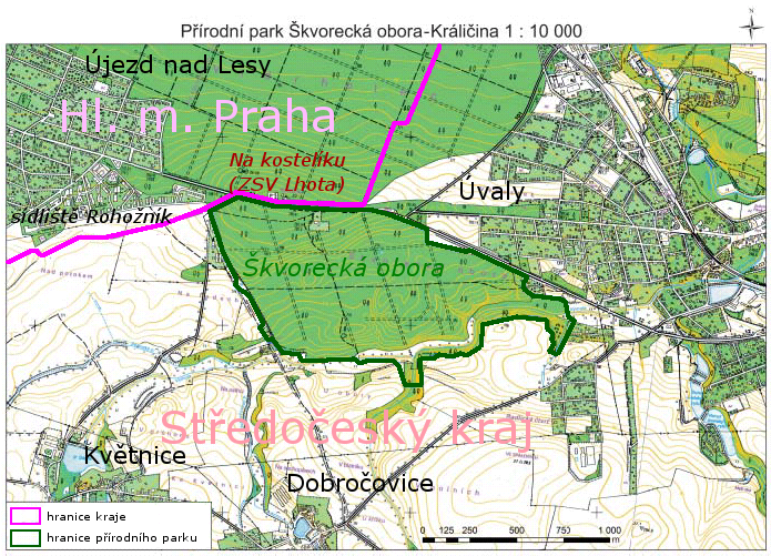 Location and extent of Škvorecká obora-Králičina Natural Park (Přírodní park Škvorecká obora-Králičina), a low-level landcape protected area in Prague-East District, Central Bohemian Region, Czech Republic. The map also indicates location of deserted medieval settlement of Lhota.